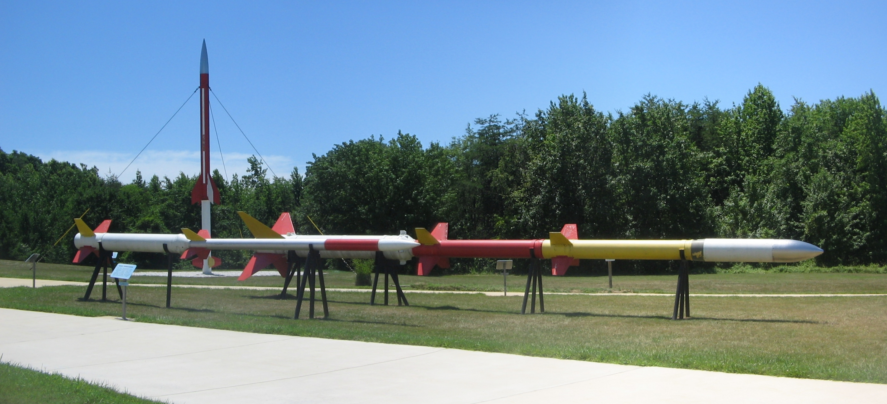 Panoramic photo of the three sounding rockets in the rocket garden behind the Visitor's Center at NASA's Goddard Space Flight Center in Green Belt, Maryland, USA. At left is a vertical Black Brant VIII Sounding Rocket, with a horizontal Argo D-4 Javelin and horizontal Tomahawk in front. For more information see here.